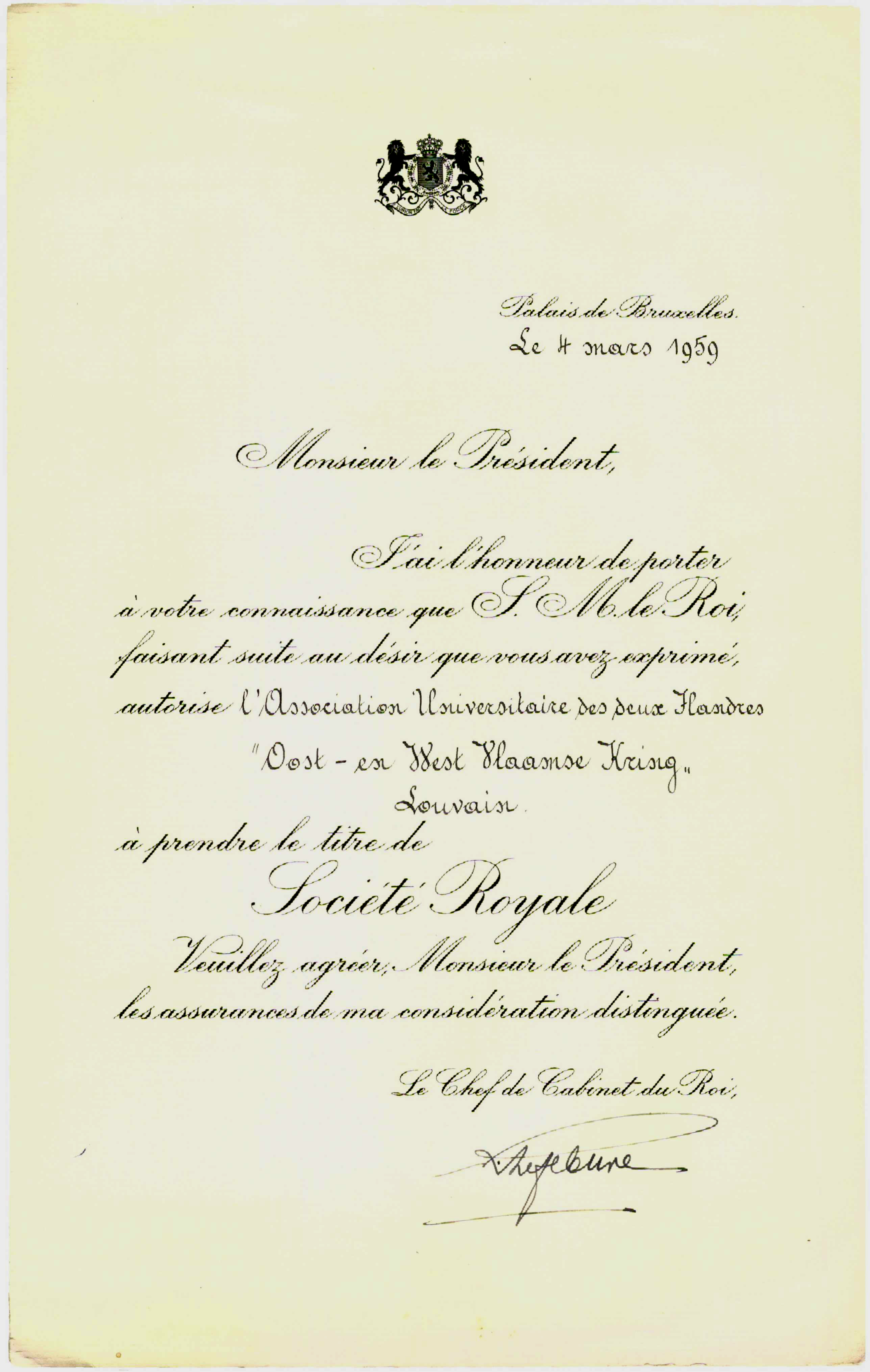 lettre du secrétaire du roi des Belges promulguant la vla-vla au rang de société royale